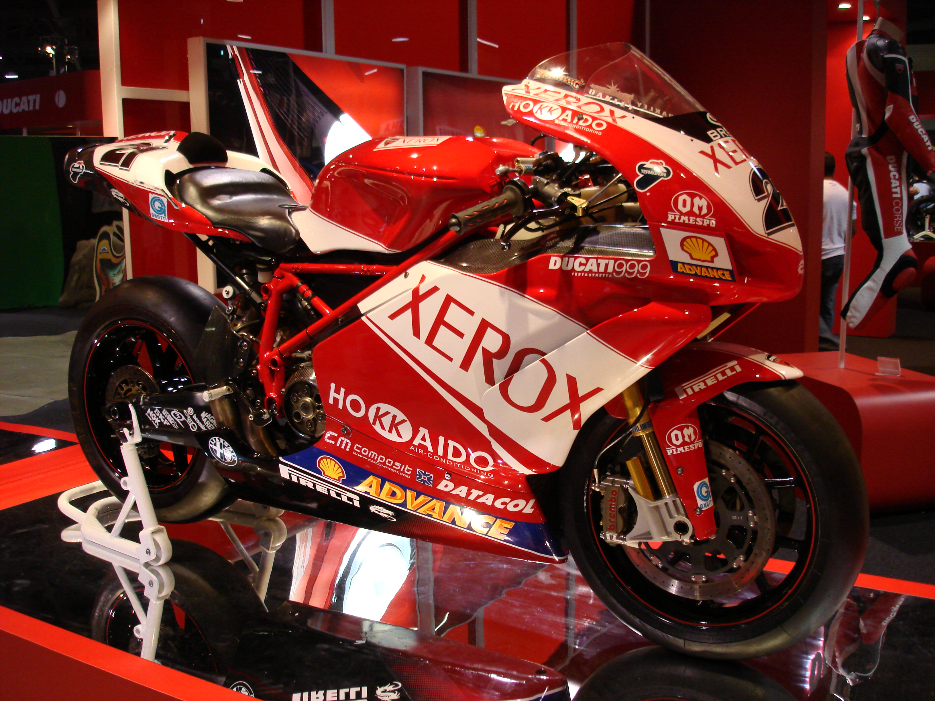 2007 2006 Ducati 999R Xerox on display at the 2006 International Motorcycle Show in Long Beach, CA. Camera used was a Sony Cyber-shot DSC-W100.